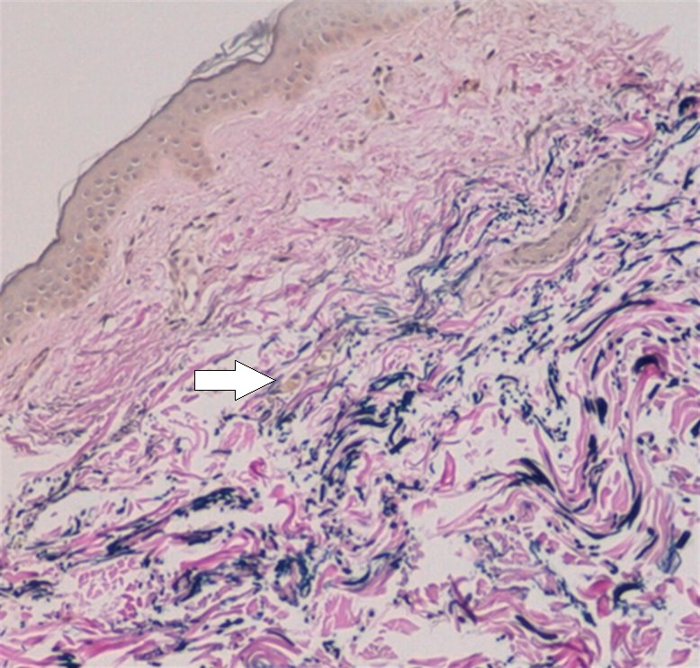 Histopathology of PXE-like papillary dermal elastolysis: Loss of elastic fibers in the papillary dermis and abnormal pattern in the reticular dermis (arrow). x20